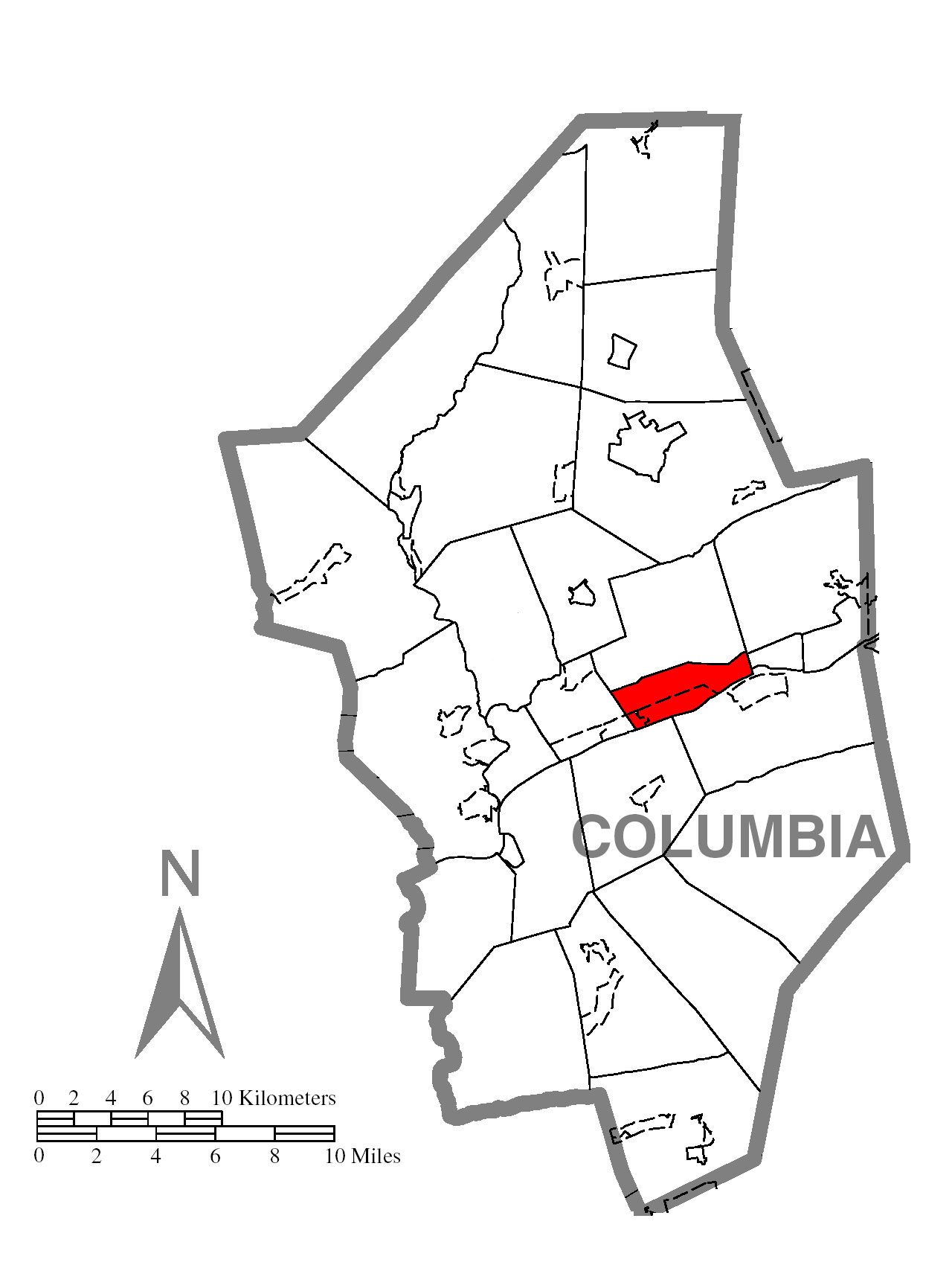 A map of Columbia County showing South Centre Township, Pennsylvania (alternate) highlighted on the map.